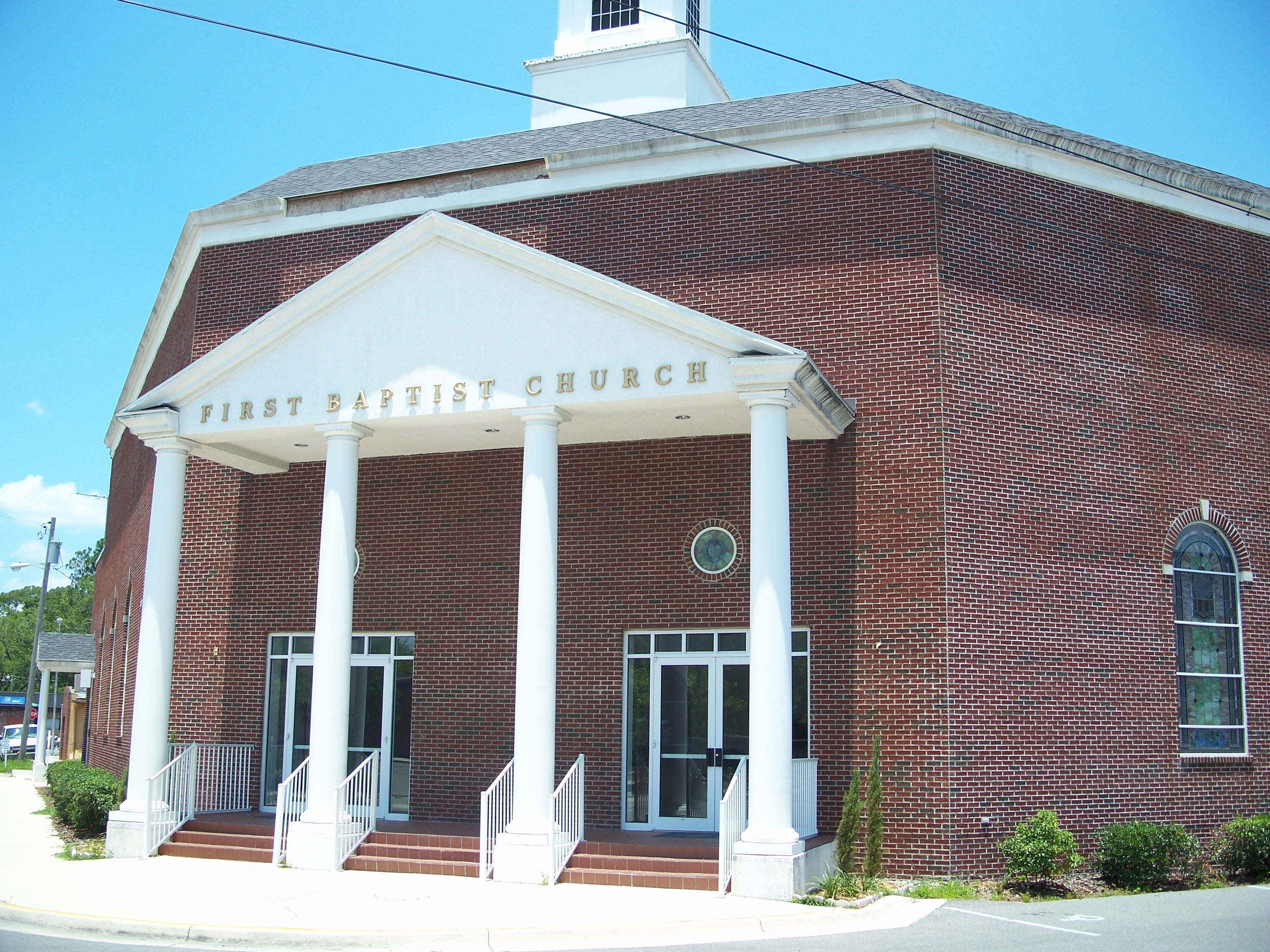 Baptist church in the Call Street Historic District, in Starke, Florida